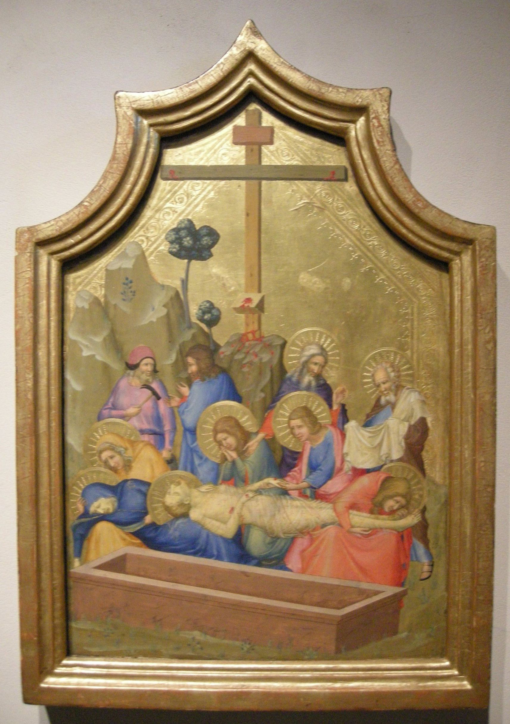 Master of the codex of saint george, compianto, 13mo secolo